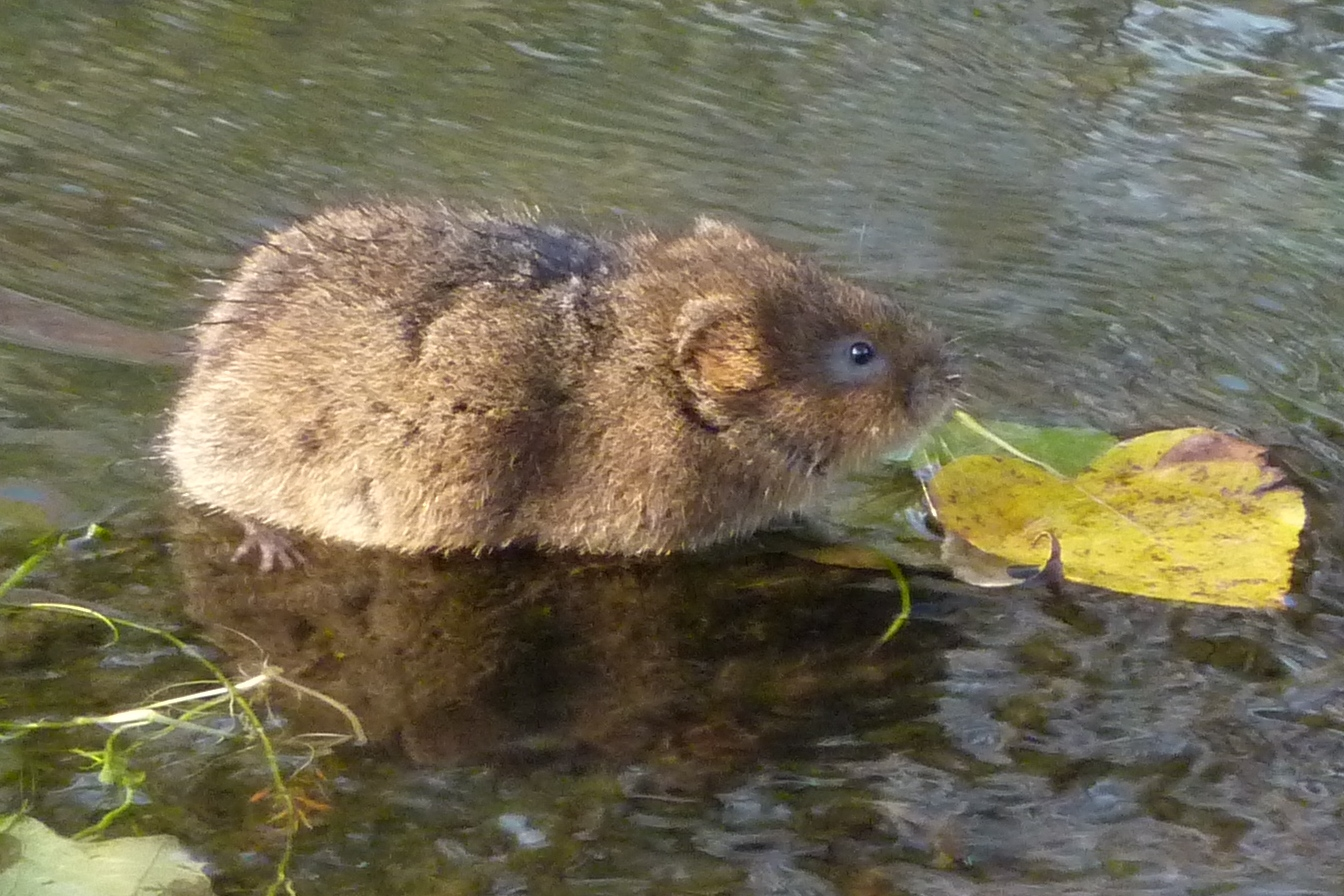 The first of yesterday's water voles. This one kindly sat in a patch of sun for me; the other, more typically, was in the shade and the photos not worth uploading. 26th November 2010 - in a channel by the River Itchen, Winchester.